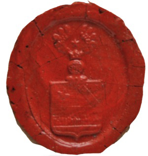 Josef Gerstner sigil from 1820 year